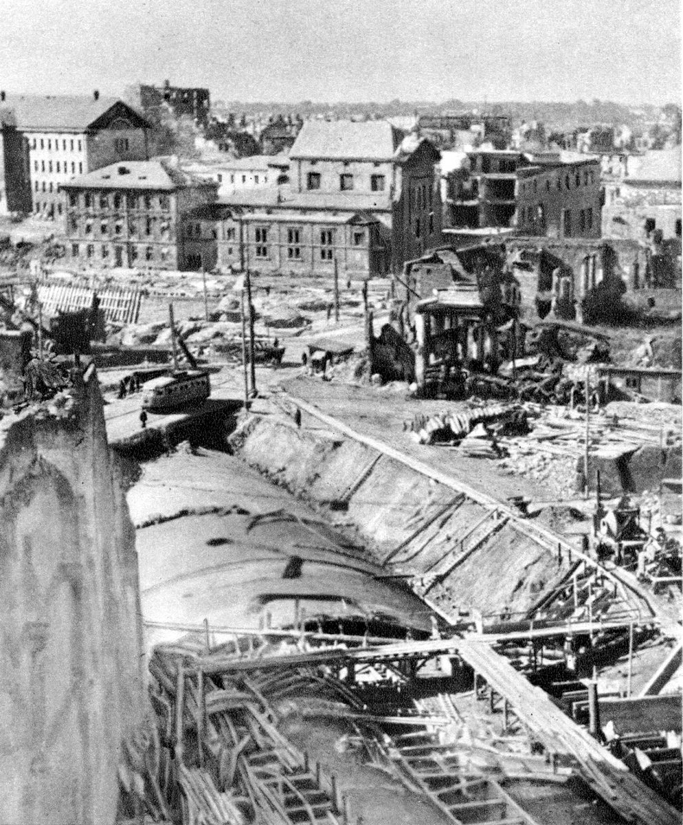 East-West road tunnel construction site, Warsaw, 1947-1948